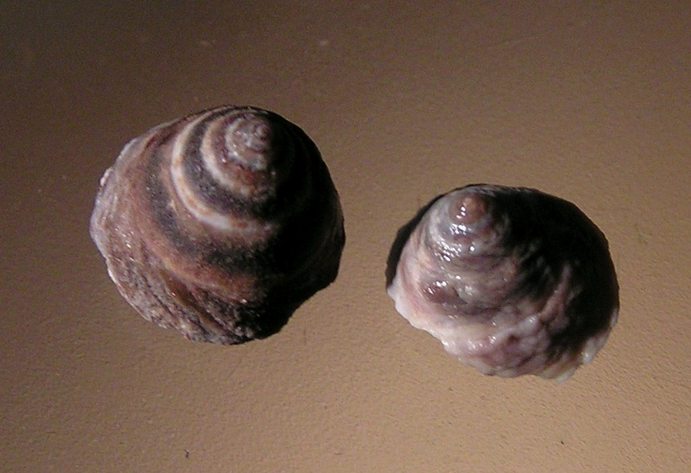 Bembicium nanum (Lamarck, 1822), a periwinkle from the family Littorinidae; Tasmania.